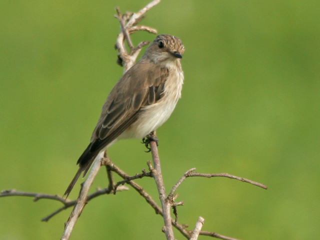 Spotted Flycatcher Photographed by Neil Gray on 14 January 2006 at Nthandanyathi Hide, Kruger National Park, South Africa 6